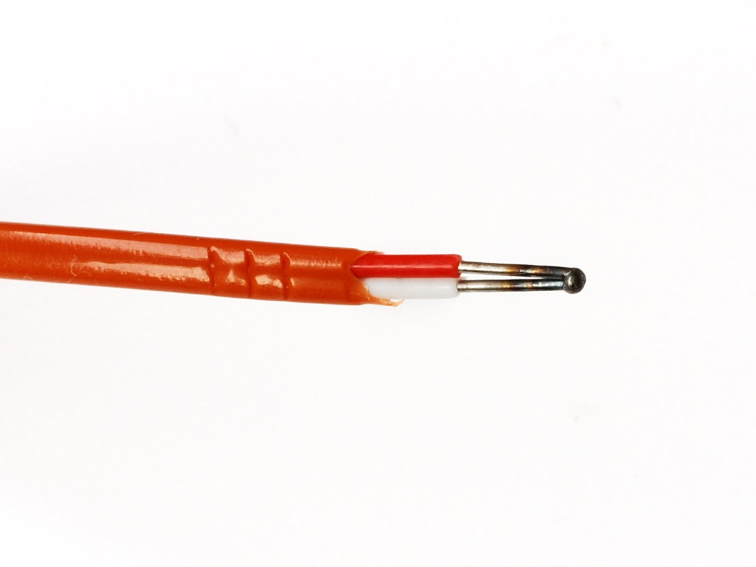 Type J thermocouple. ANSI color code: white= +, red= -, brown coating. Wire diameter 2x 0.5 mm, welding bead diameter app. 1.0 mm.